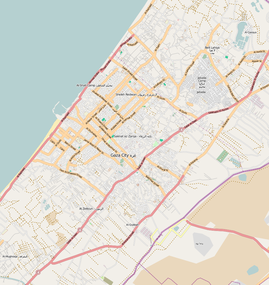 Map of Gaza. Geographic limits of the map: N: 31.5698° S: 31.4558° W: 34.4028° E: 34.5291°